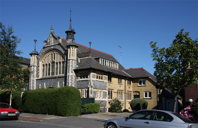 Ashlar Court, 270 Creighton Avenue, London N2, seen from the southeast. It was built in 1902 as East Finchley Baptist Church, but in 1931 a new Baptist church was completed next door, and the 1902 building became the Church Hall. Since 1988 the hall has been converted into housing.